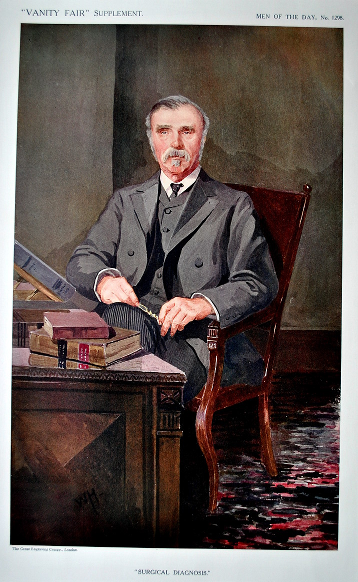 Men of the Day No.1298: Caricature of Sir Alfred Pearce Gould KCVO MS FRCS. Caption reads: "Surgical Diagnosis"